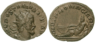 POSTUMUS. 260-269 AD. Antoninianus (2.65 gm). Mint city I=Treveri (Trier). Struck 260 AD. IMP C POSTVMVS P. F. AVG, radiate, draped, and cuirassed bust right SALVS PROVINCIARVM, Rhine, horned, reclining left on urn, resting arm on prow left and holding anchor(?). RIC V 87; AGK 88c; RSC 355b.